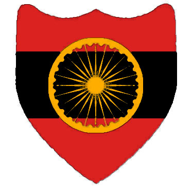 The shield(emblem) of the Western Command of the Indian Army